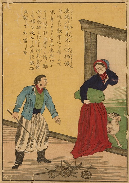 English inventor Richard Arkwright (1732-1792). Japanese print shows an angry Arkwright sending his wife to her parents because she deliberately broke his spinning wheel. 1 print on hōsho paper : woodcut, color ; 33 x 23 cm. (block), 36.2 x 25 cm. (sheet).